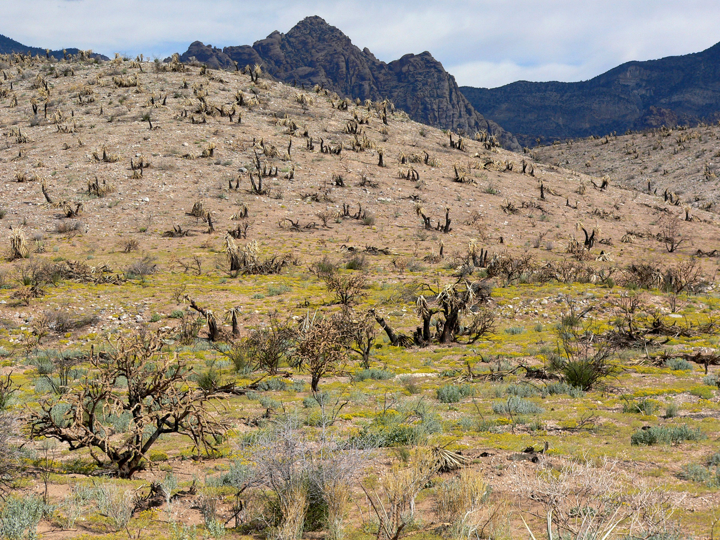 Pectis papposa var. papposa in the Scenic Fire area in Red Rock Canyon, southern Nevada